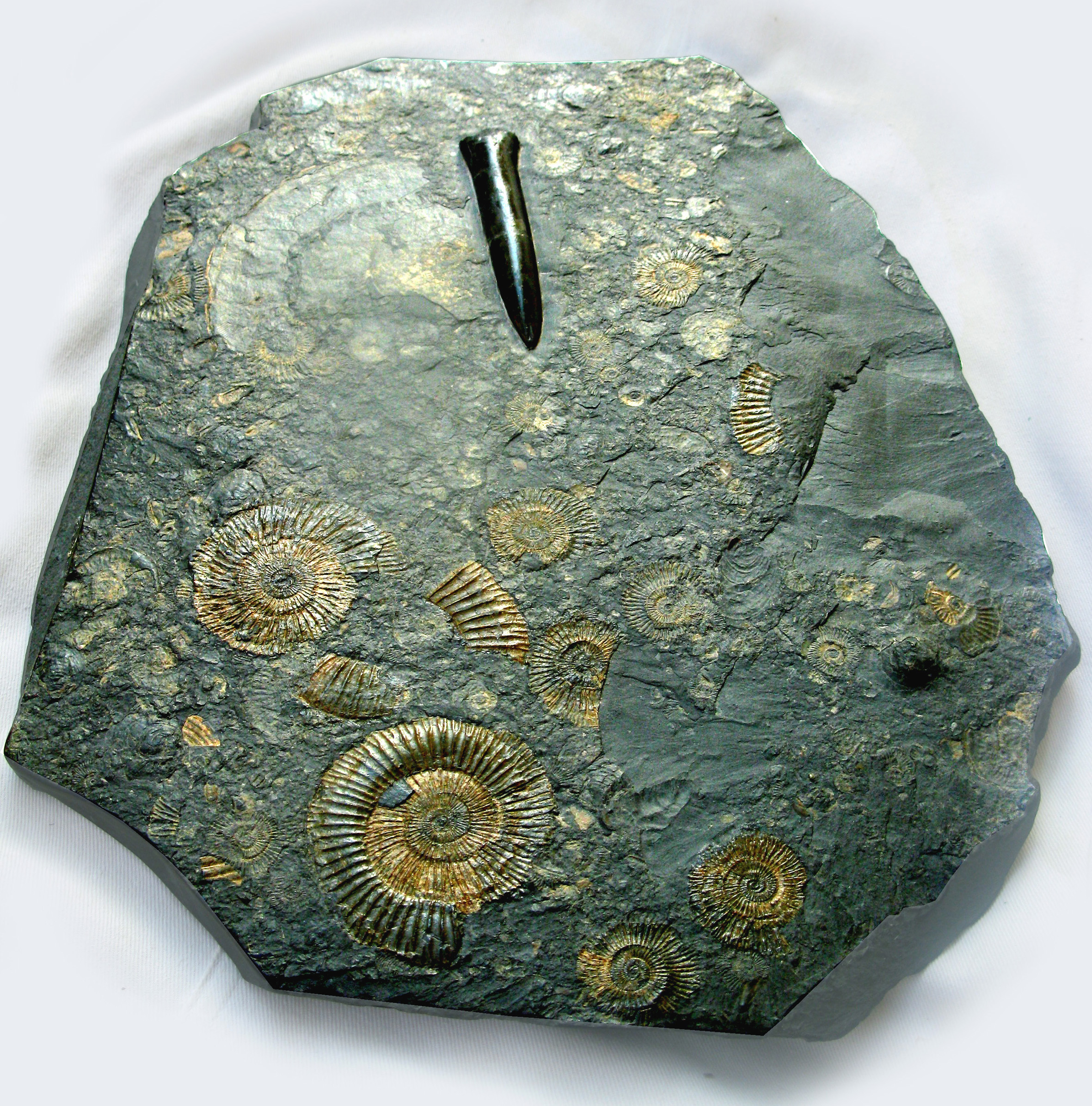 Dactylioceras ammonoids & Belemnites, Early Cretaceous, Holzmaden, Germany